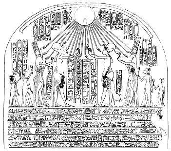 Drawing of the top part of boundary stela S